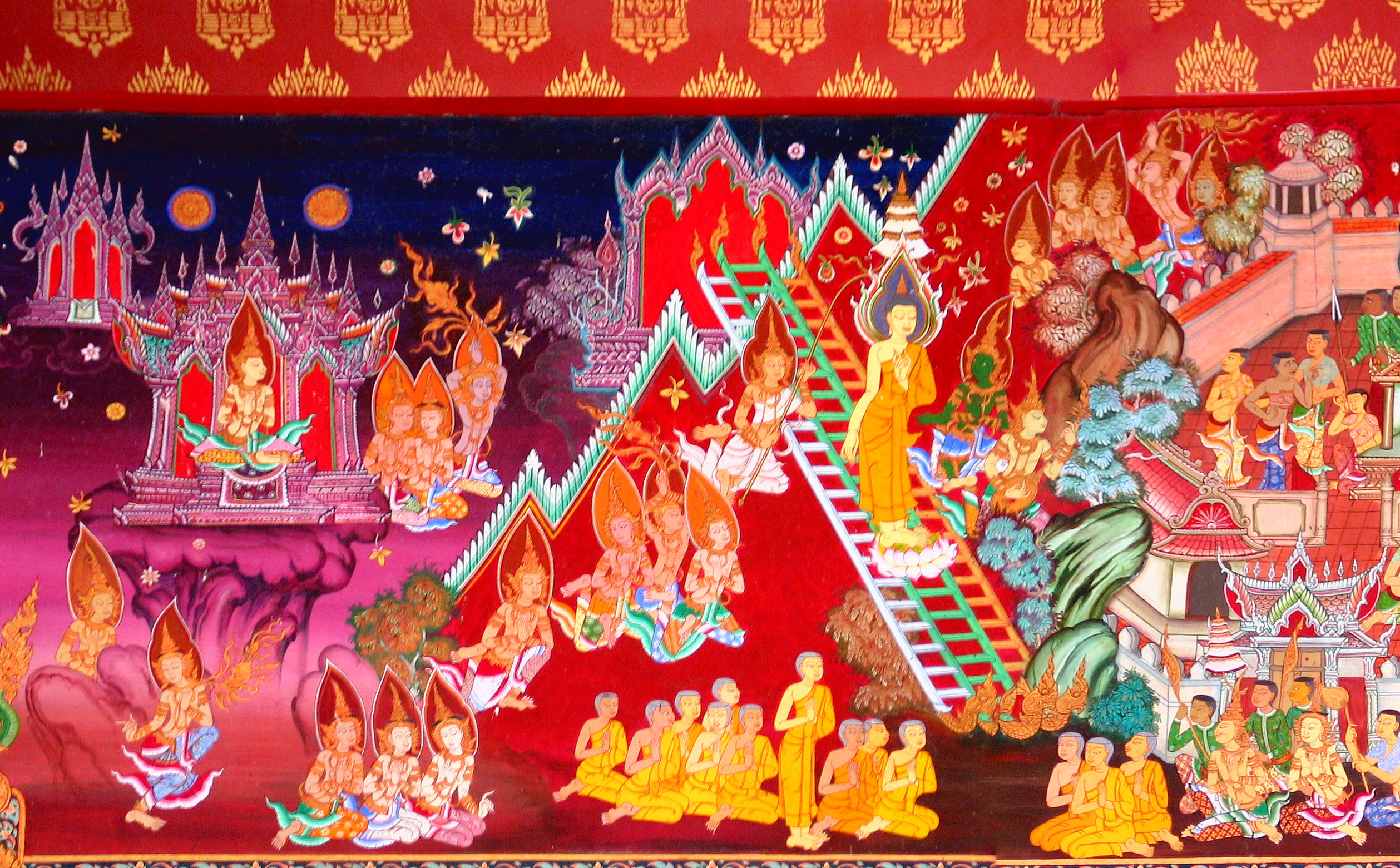 Buddha's return from Tavatimsa heaven - traditional Thai mural in Traipidok-Hall of Phutthamonthon park, Nakhon Pathom, Thailand